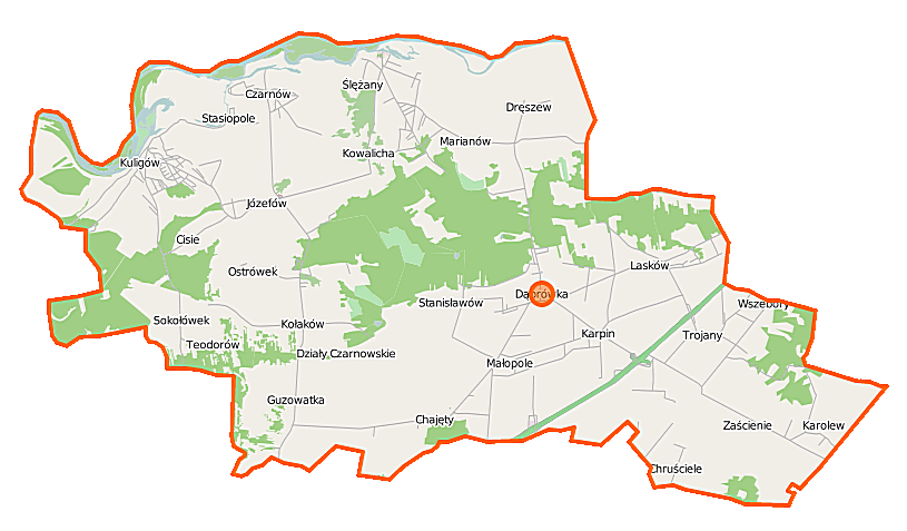 Map of Gmina Dąbrówka, Poland This map of Dąbrówka (gmina) was created from OpenStreetMap project data, collected by the community. This map may be incomplete, and may contain errors. Don't rely solely on it for navigation. Border coordinates52.540421.1308←↕→21.411352.4405